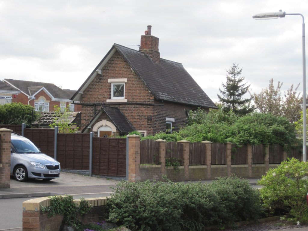 Methley Junction railway station (site), YorkshireOpened in 1849 by the Lancashire & Yorkshire Railway on its line from Methley North to Castleford Cutsyke, this station closed to passengers in 1943. It was one of a trio of stations to serve Methley. Now there are none, and this building is situated in the middle of a housing estate. The line used to run roughly where the road now is.